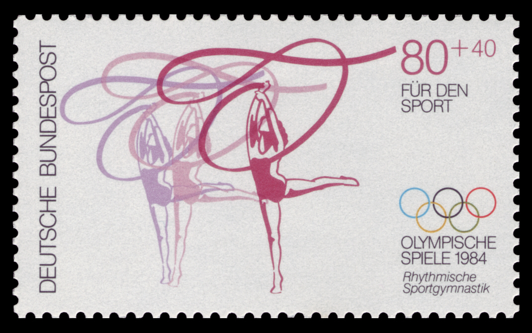 additional fees for German sports, olympic summer games in Los Angeles and paralympic summer games in New York and Illinois